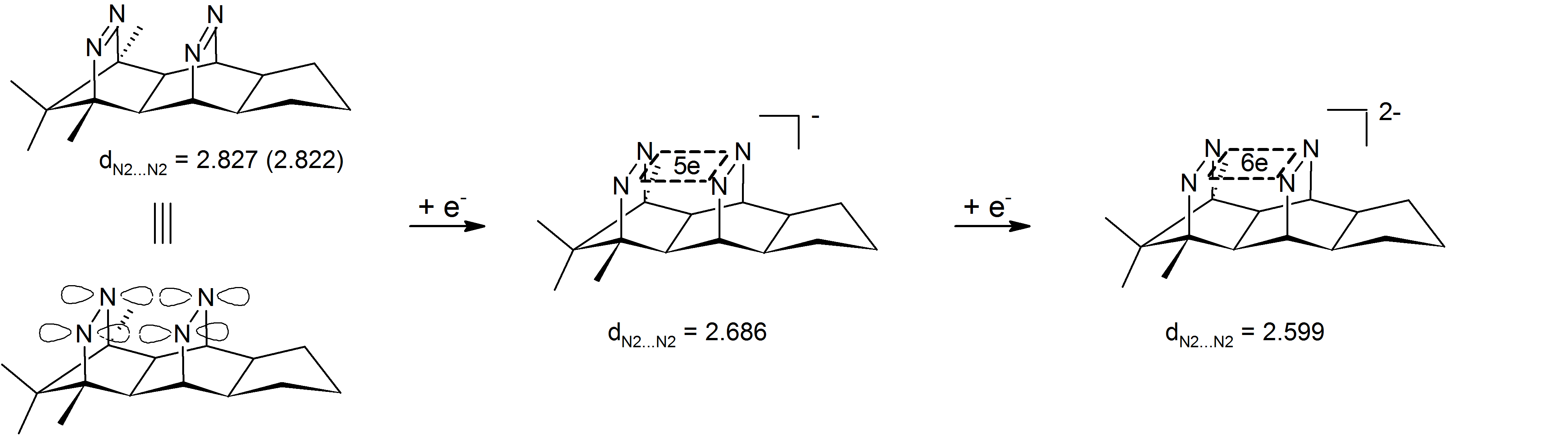 Reduction of a bisdiazene to a sigma-bishomoaromatic dianion. DIstances in angstrom calculated at B3LYP?6-31G* level (x-ray for the the neutral)